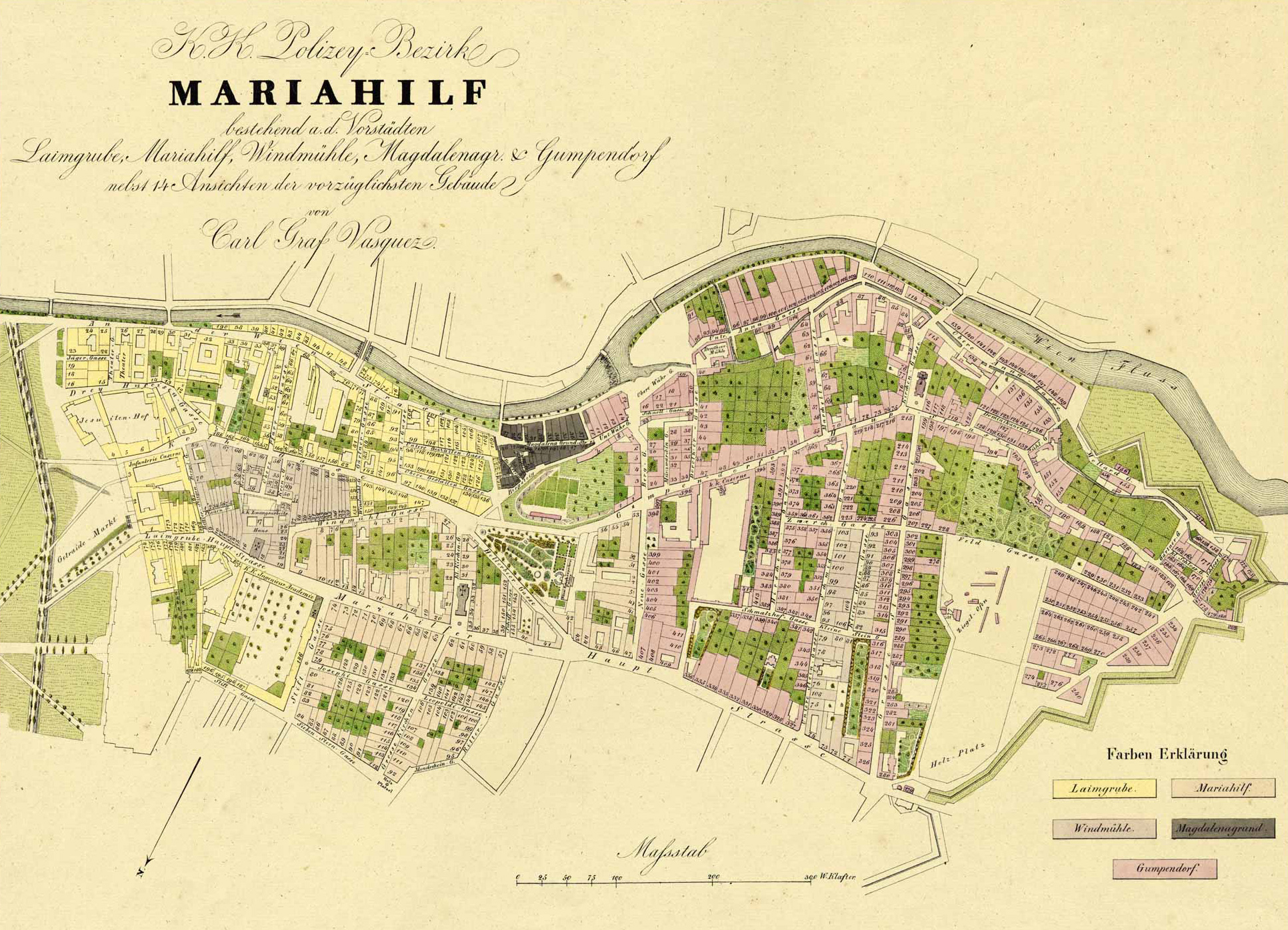 Map of Vienna / Mariahilf, approx. 1830